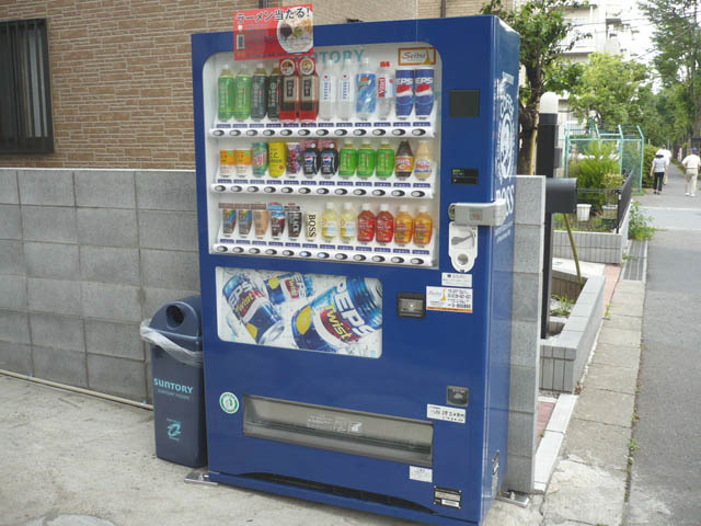 Vending machine of Suntory drinks, Japan. Photograph taken by Kzaral.